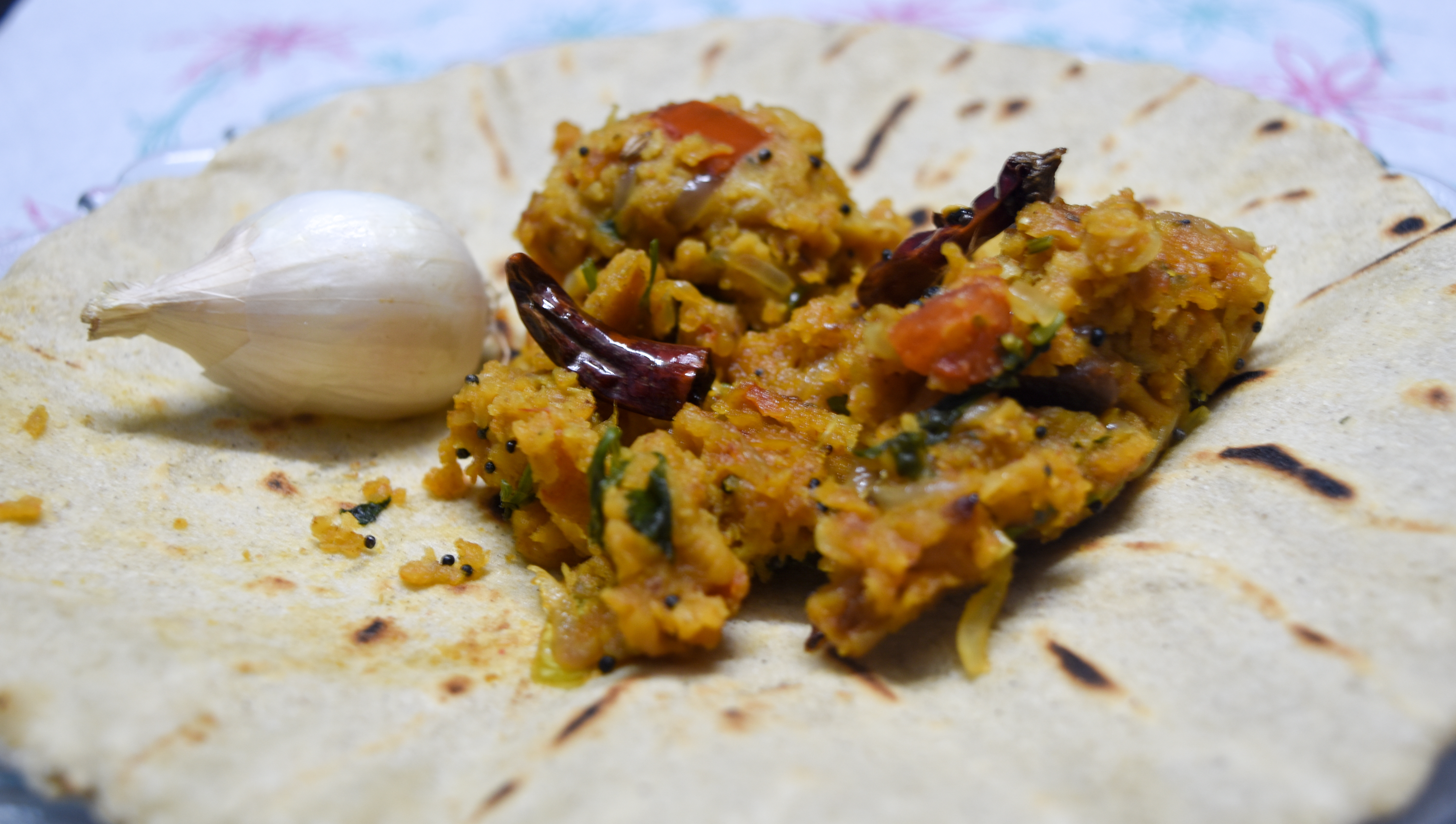 Jhunka(झुनका)-Bhakar(भाकर) is very common food in Maharashtra. Bhakar is a flat round roti made of jowar flour, bajra flour. Bhakar is eaten with Jhunka a yellow colour sabji, which is made of gram flour. ANd serve with an onion. Jhunka is flavoured with hot oil and red chillies for good taste.